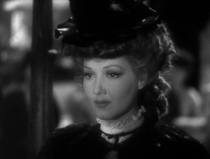 american actress Jean Parker (1915-2005) in Bluebeard (1944)